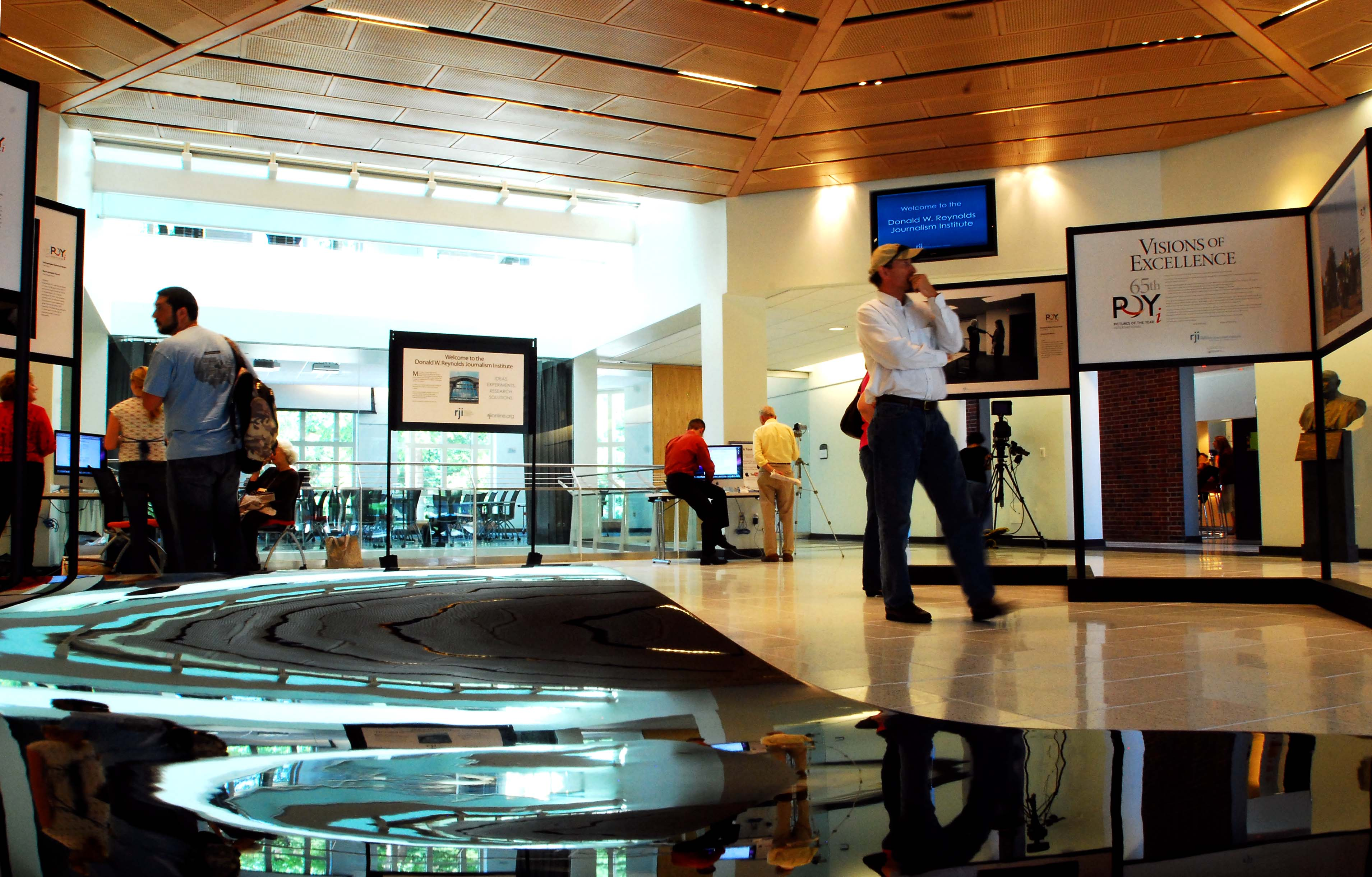 Reynolds Journalism Institute